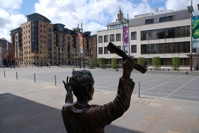 Statue, Custom House Square, Belfast (2). See 412523. The Square is almost deserted - not even a stray pigeon. A speaker with no audience.